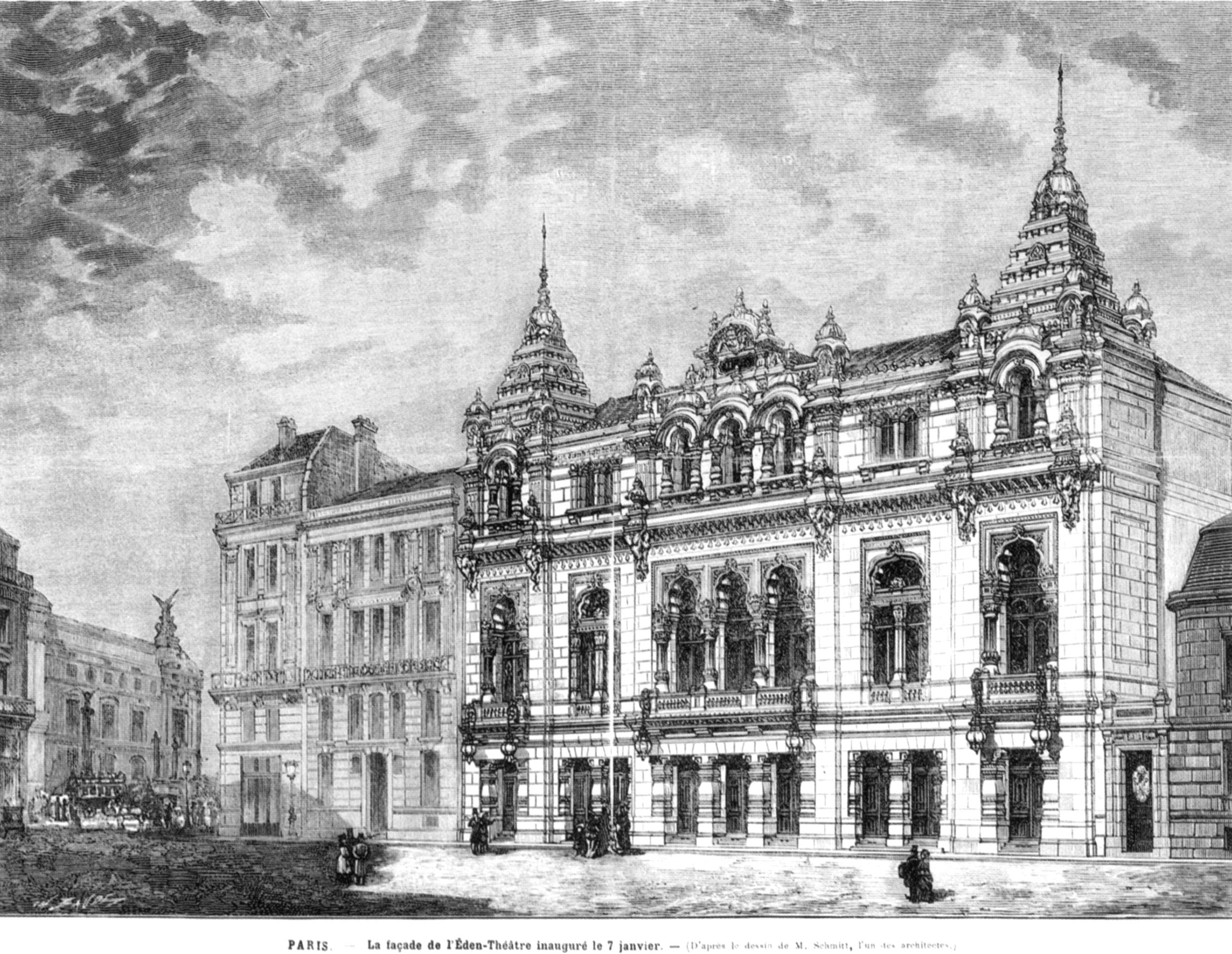 Facade of the Éden-Théâtre in Paris at the time of its inauguration on 7 January 1883. The west side of the nearby Paris opera house, the Palais Garnier, is visible in the background on the left.